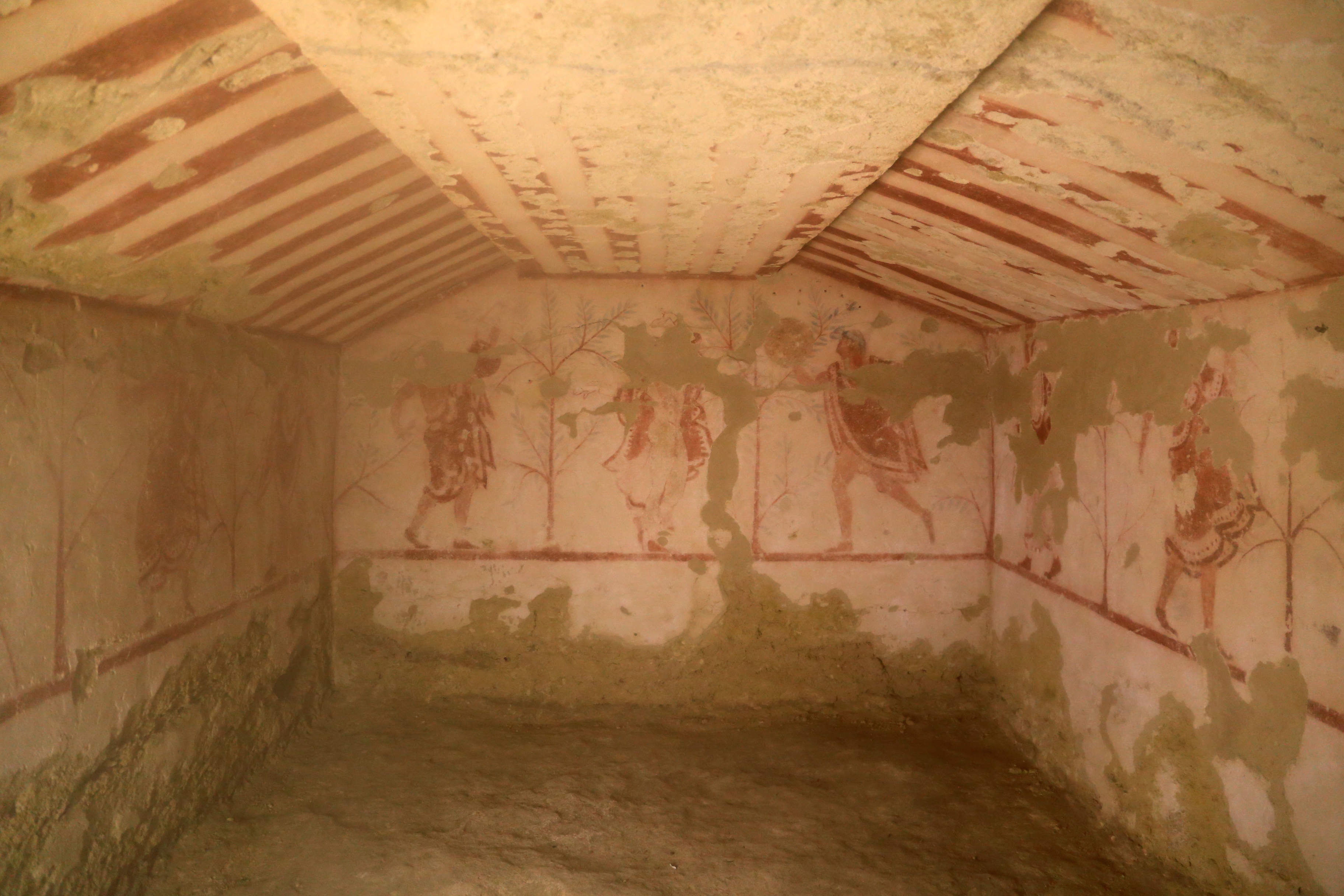 Necropoli dei Monterozzi (Tarquinia)